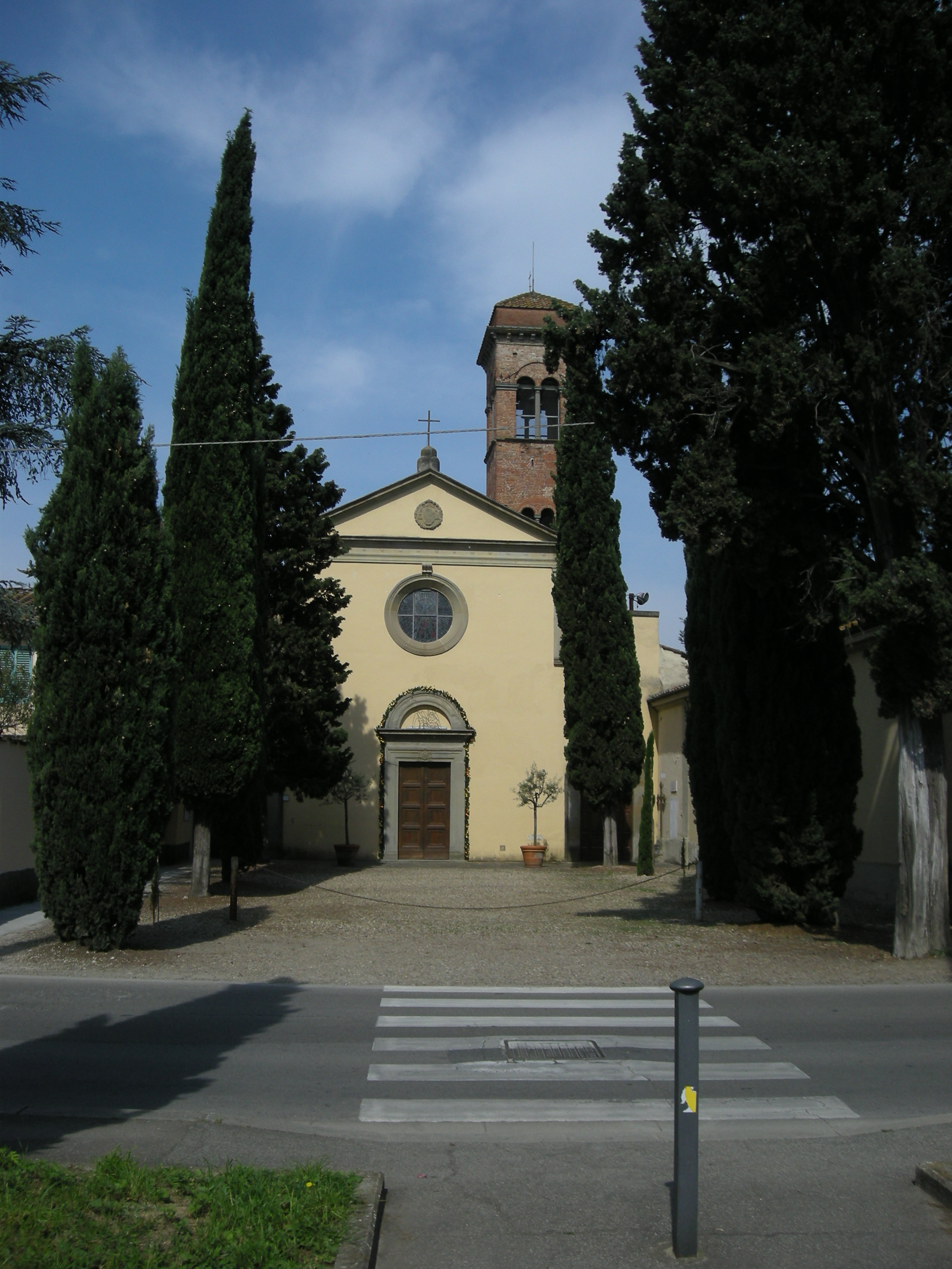 San Martino a Brozzi church